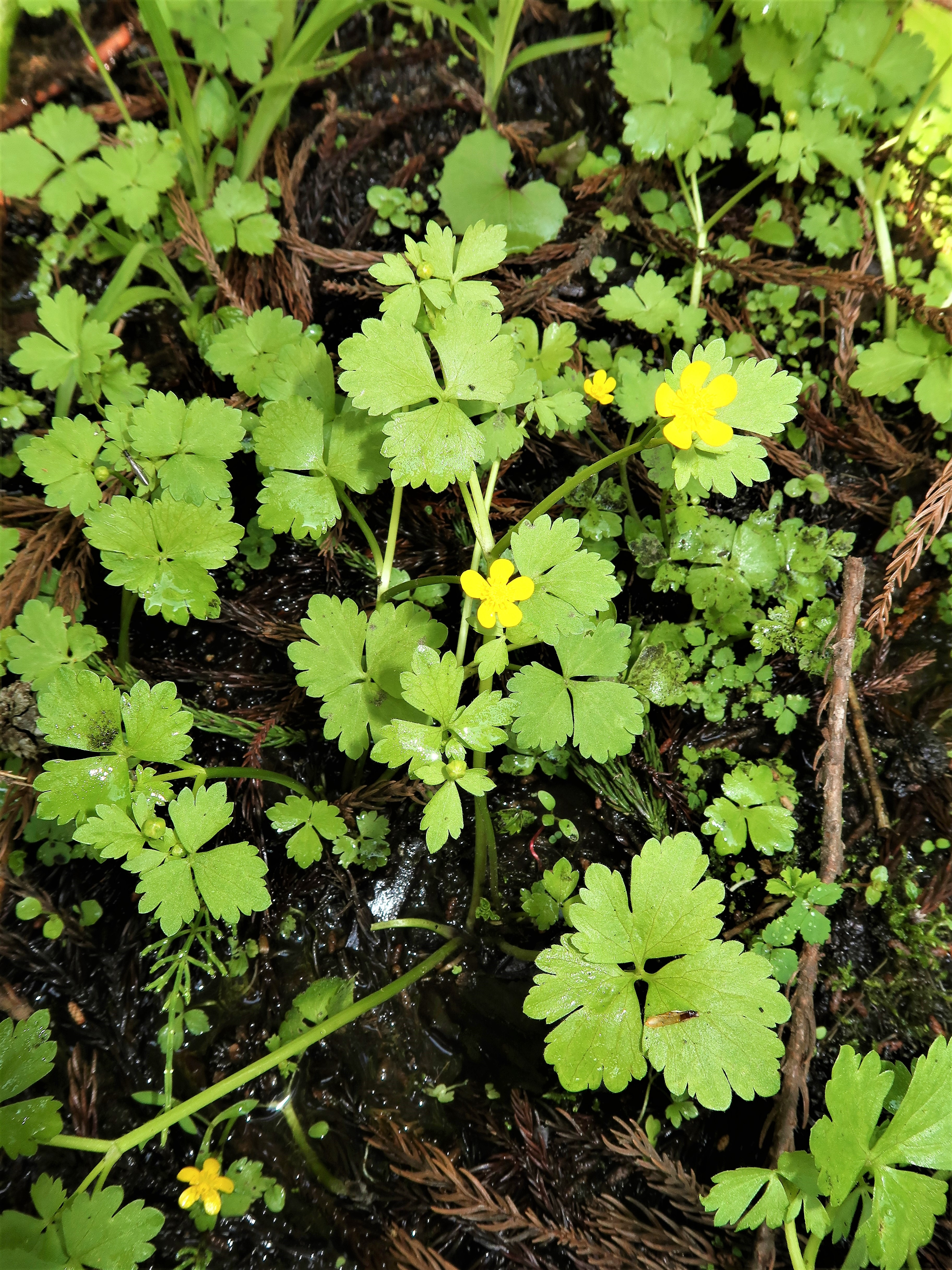 Ranunculus hakkodensis, Aomori city, Aomori pref., Japan